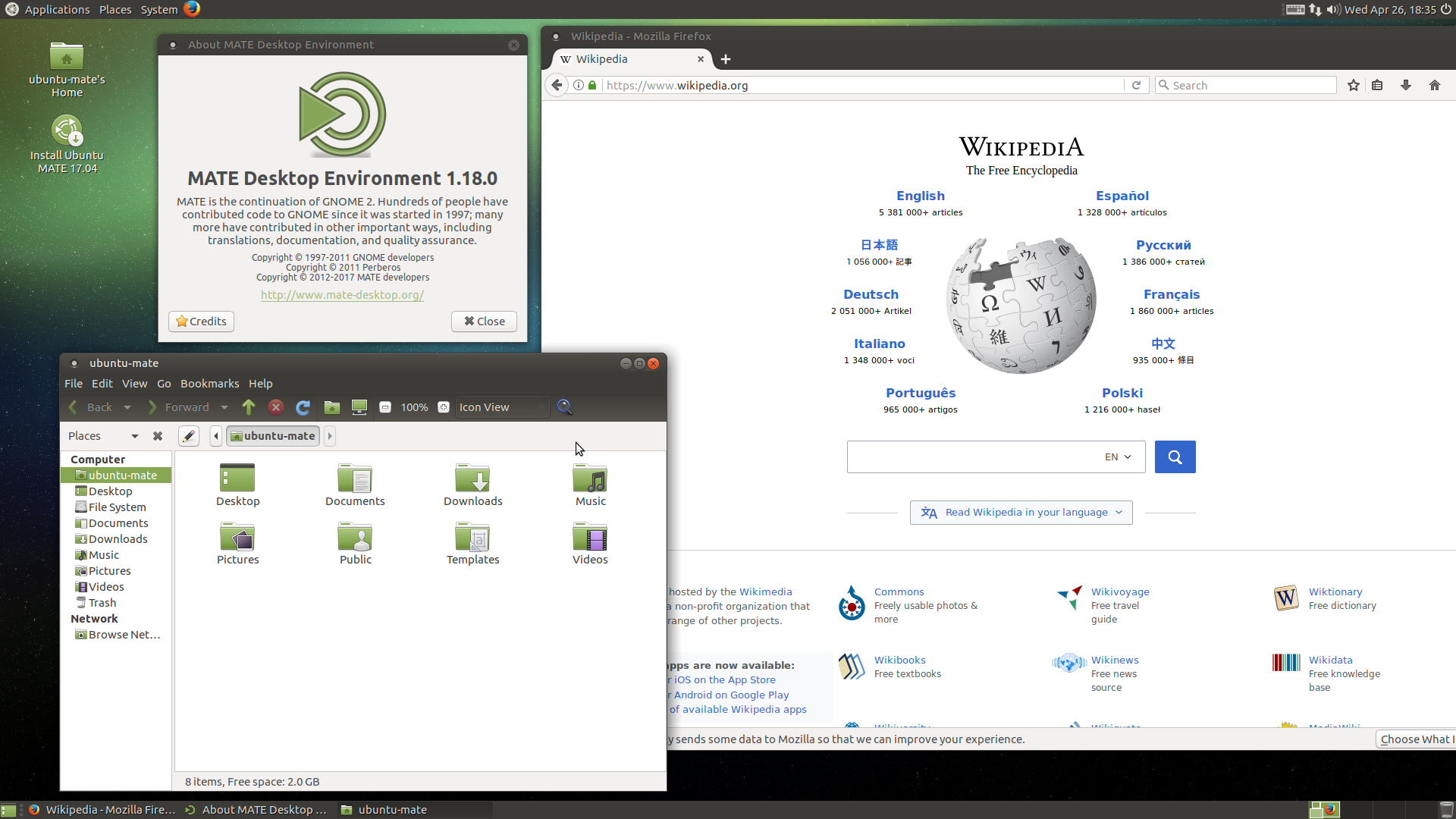 Screenshot of the english Ubuntu MATE 17.04